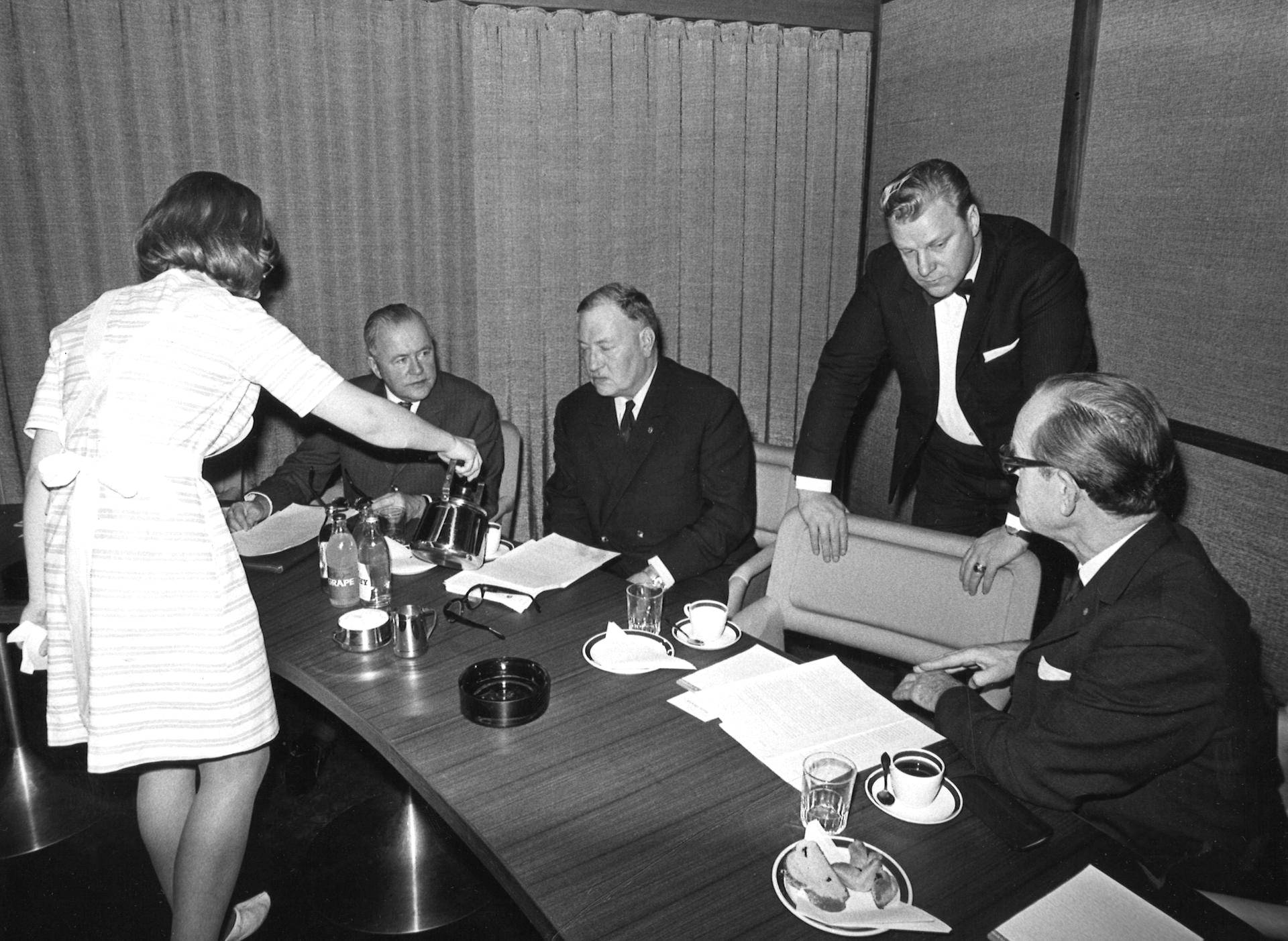 Photograph of the Yleisradio (Finnish Broadcasting Corporation) administrative board getting ready to discuss the poem Howl which caused turmoil in Finland earlier that year. Behind the table: Wäinö Häkkinen (left), Matti Raipala, Eeles Landström, and Erkki Tuuli.